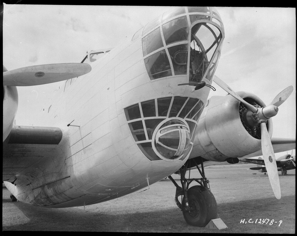 This image shows the front-firing antennas of an ASV Mk. II radar as installed on a Royal Canadian Air Force Douglas Digby (B-18 Bolo) aircraft. Note the shaping of the transmitter antenna, seen just below the bombsight window. It has been bent into a curved shape to closely follow the shape of the aircraft fuselage, using the fuselage itself as a reflector to make a Yagi antenna using only a single wire. Similar "tricks" were used on a variety of ASV and AI radars, but made it difficult to move to different aircraft designs. This aircraft is part of 751 Squadron RCAF stationed at Rockcliffe (Ottawa). It is not clear whether this is the same aircraft as seen in other images.